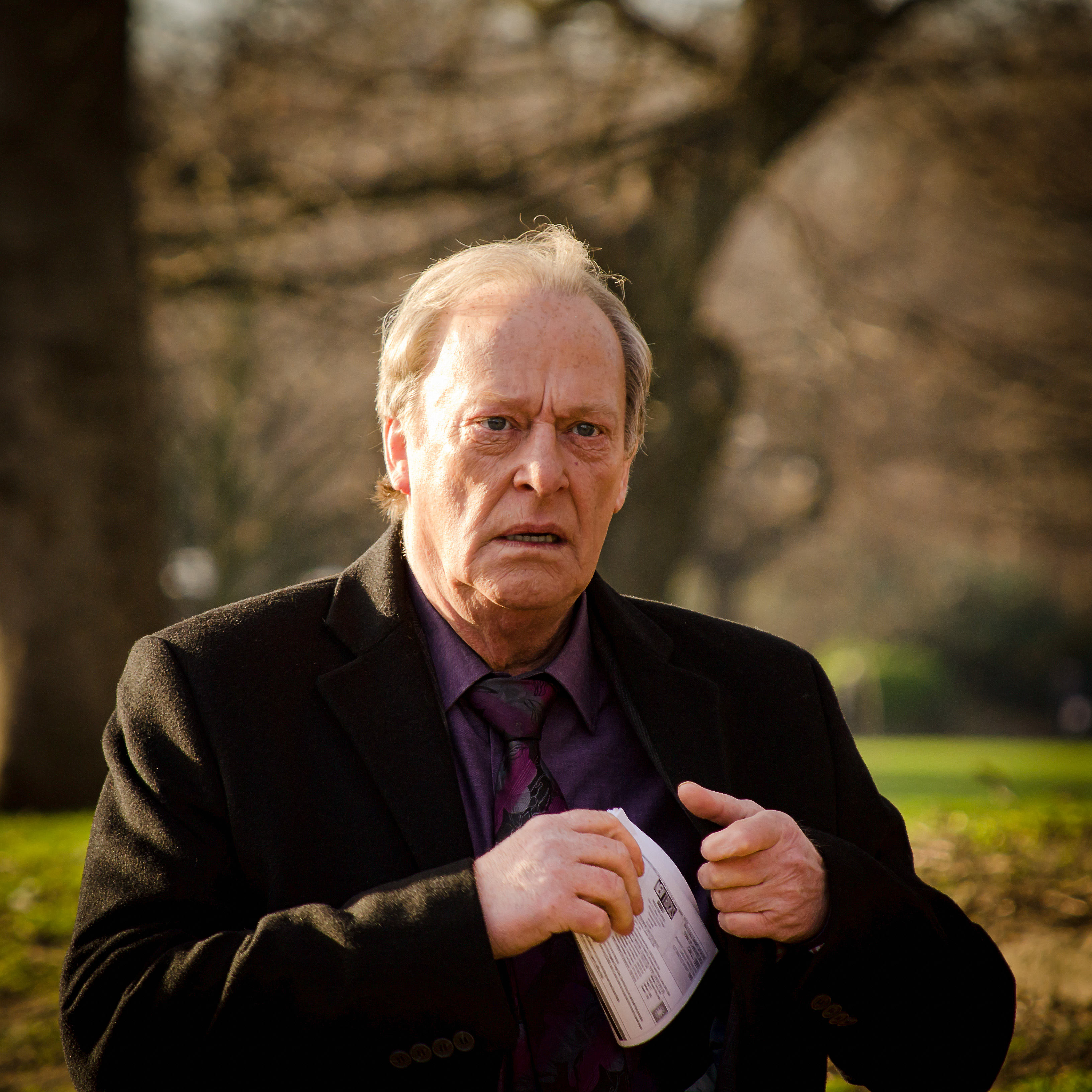 Dennis Waterman, English actor, filming New Tricks on location in St James's Park.